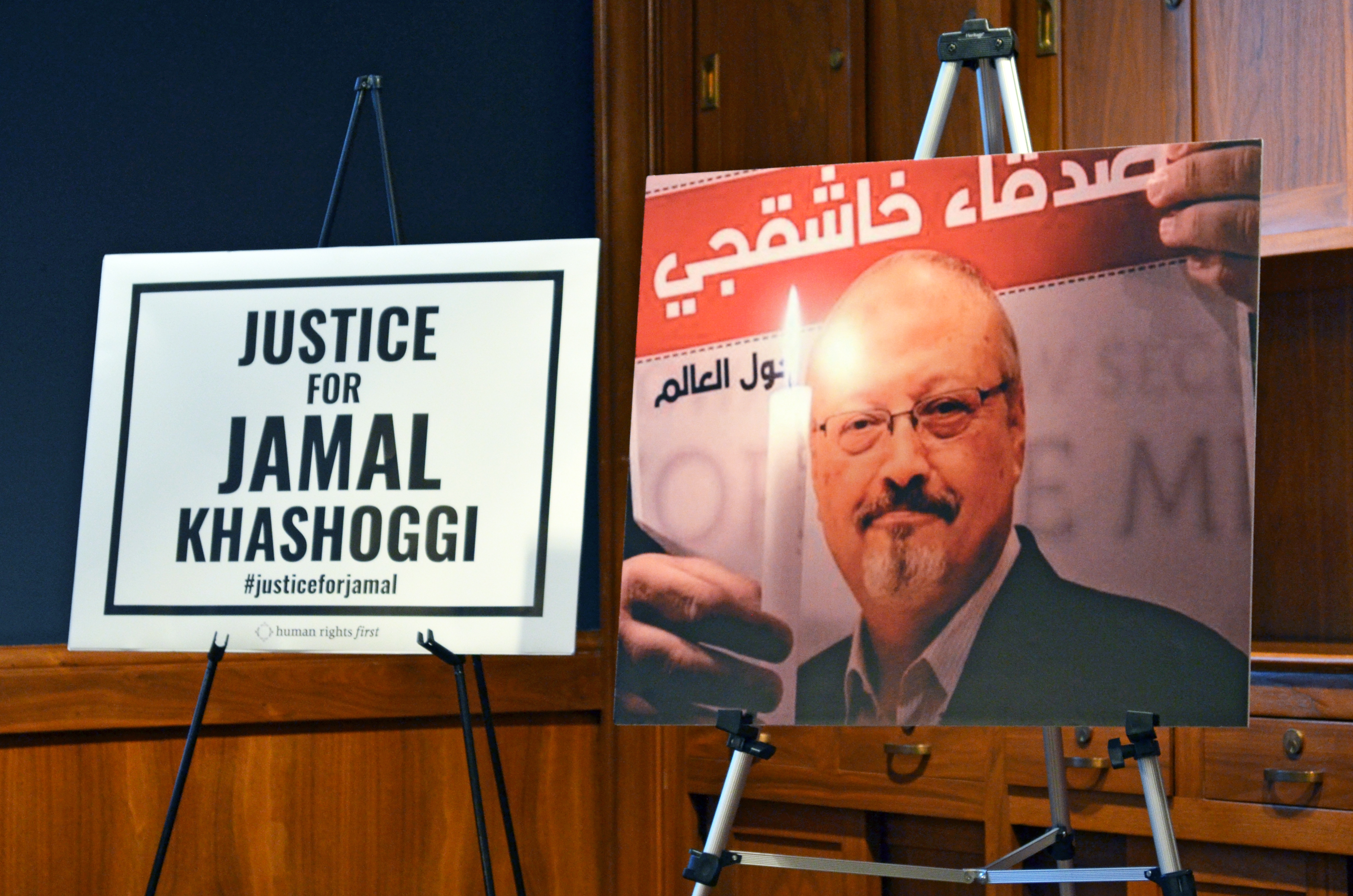 To mark the one-year anniversary of Jamal Khashoggi’s brutal murder, POMED and 12 other human rights and press freedom organizations held a public event on Capitol Hill to commemorate Jamal’s life, to call for accountability, and to cast a light on the Saudi government’s repression of those who are perceived to be critical of Crown Prince Mohammed bin Salman and his regime. Thursday, September 26, 2019 9:00 am – 11:00 am Dirksen Senate Office Building, Room G-11 50 Constitution Ave NE, Washington, DC Watch the event here. Photo credit: April Brady/Project on Middle East Democracy